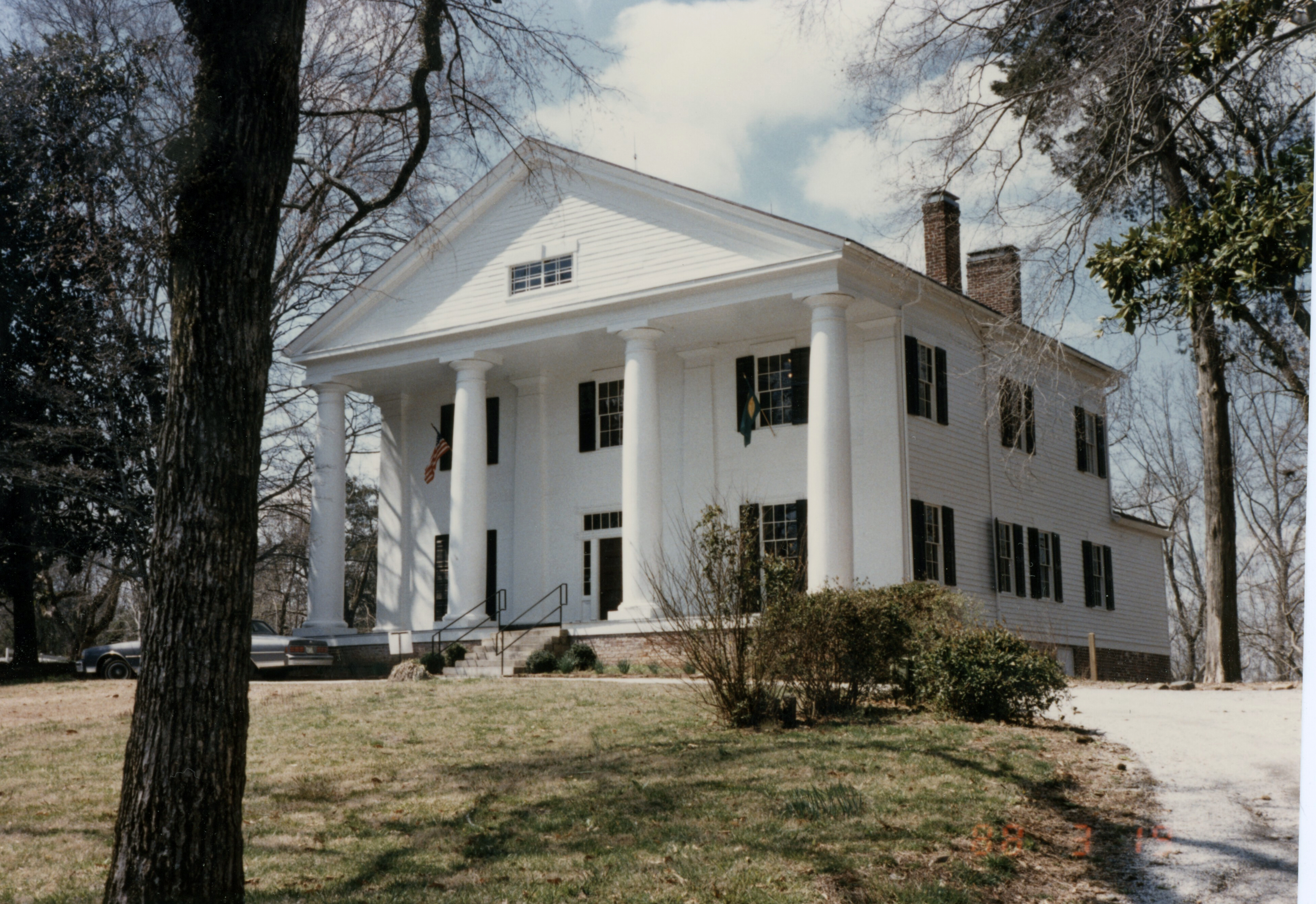 Bulloch Hall, Roswell, Georgia, U.S. Scan from a 1988 photo.